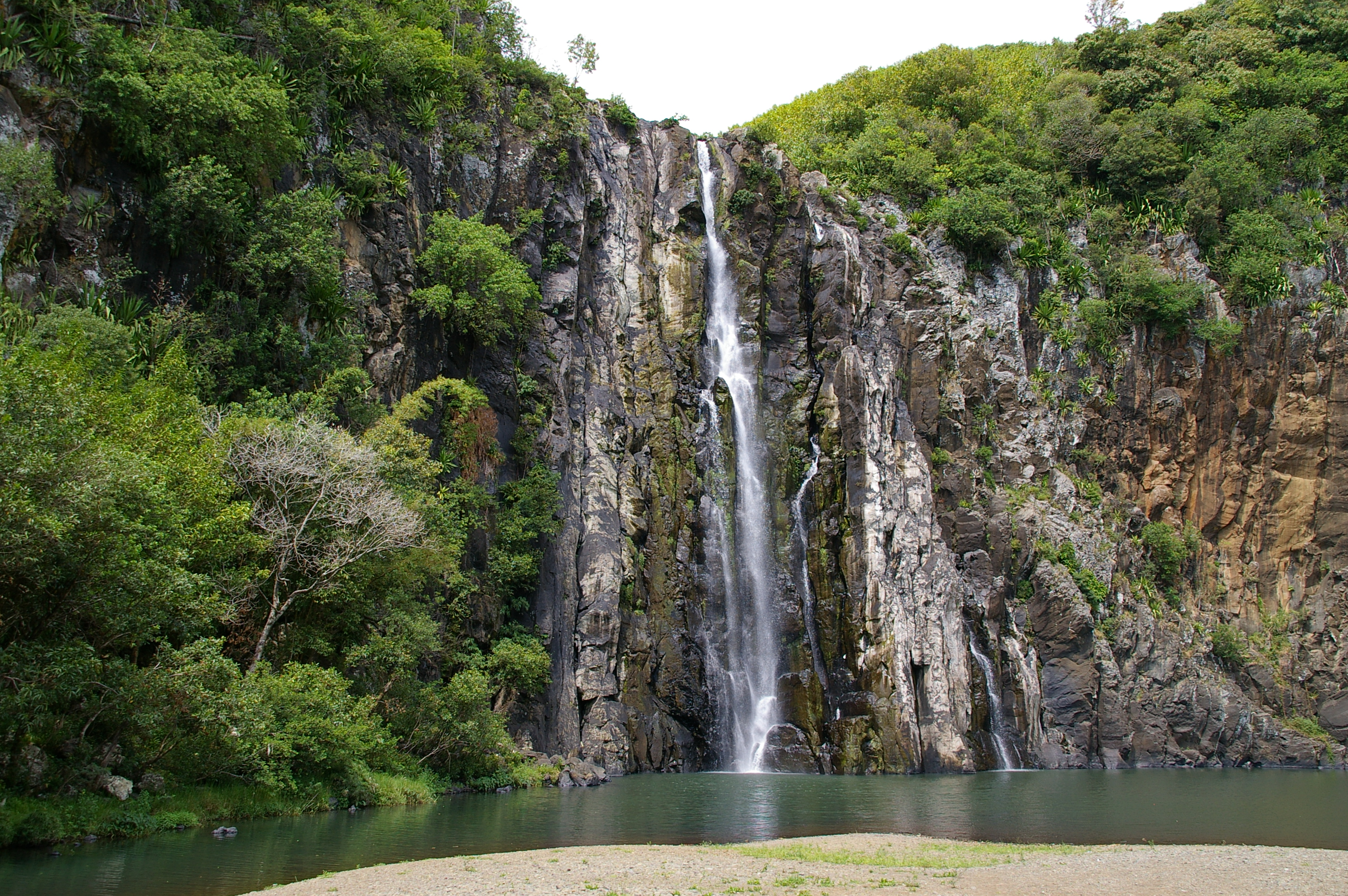 You're really thinking Niagara falls are located in Canada ? There's another in Reunion Island.